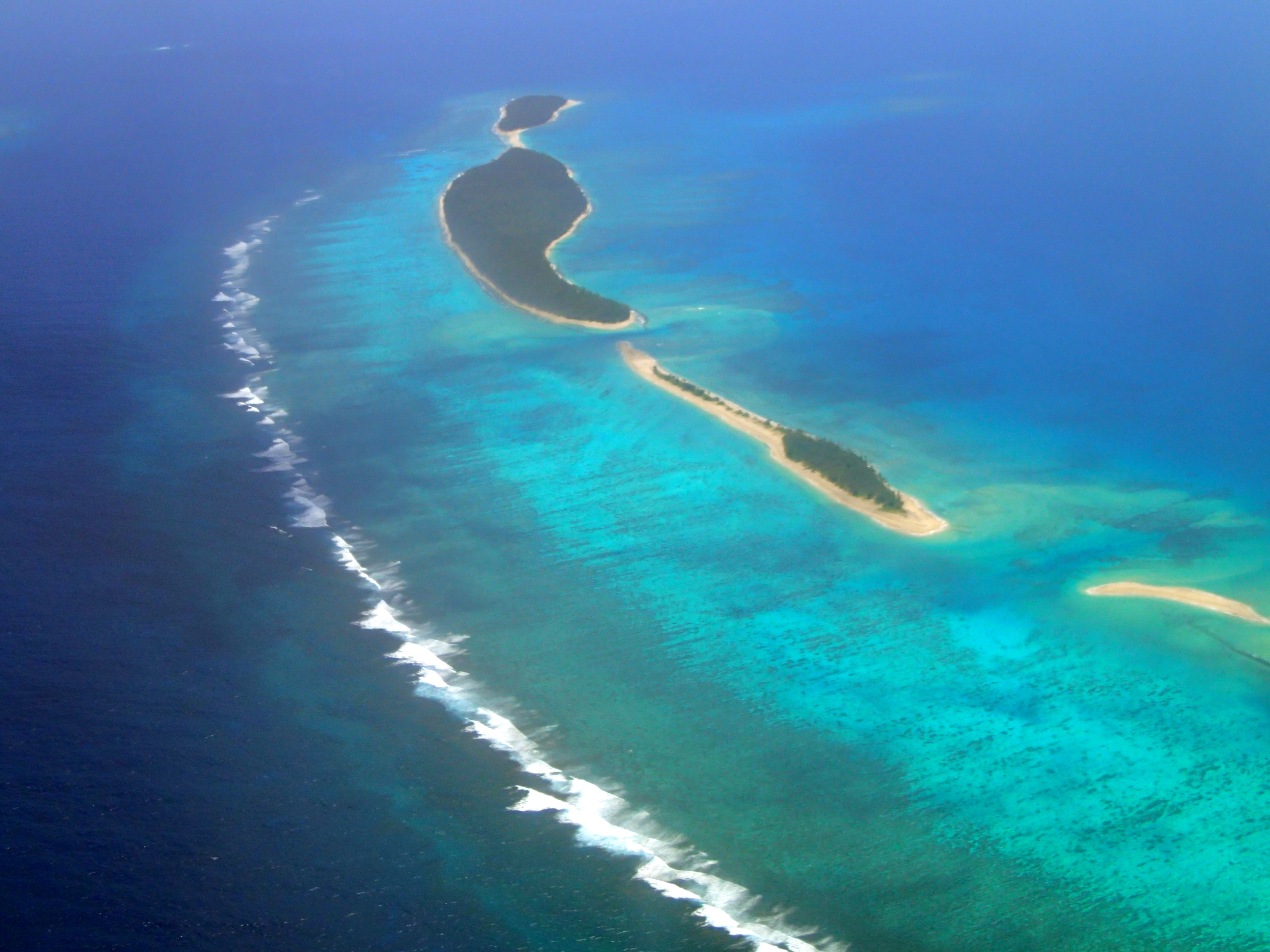 Uonukuhihifo (top), Uonukuhahake (middle) and part of Tofanga (right) islets, of the Ha'apai group, in Tonga. The islands are seen from the West.